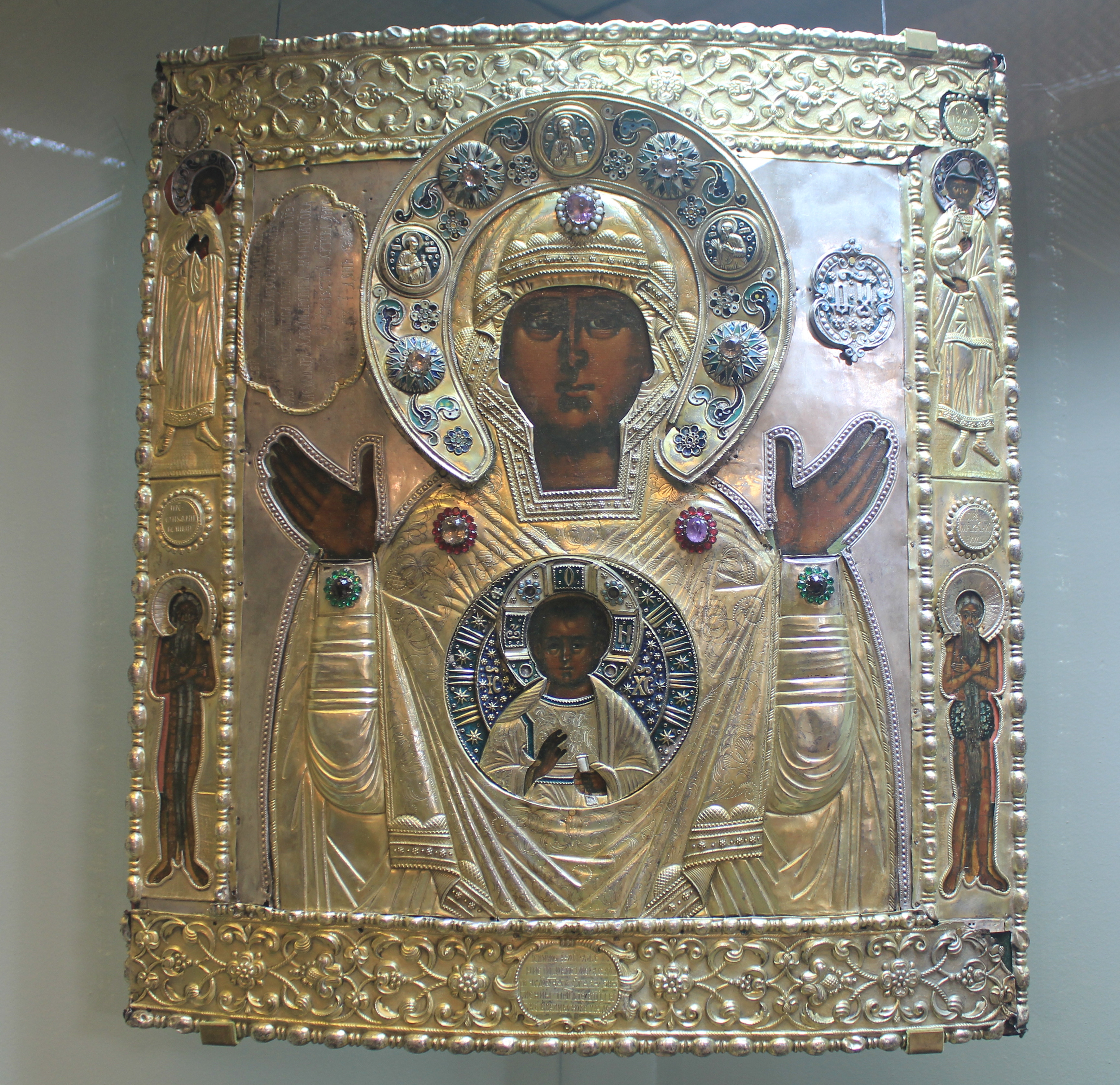 Our Lady Znamenie. 1st quater of 18 c. Silver riza. With this icon prince A.D.Menshikov blessed before death his son.